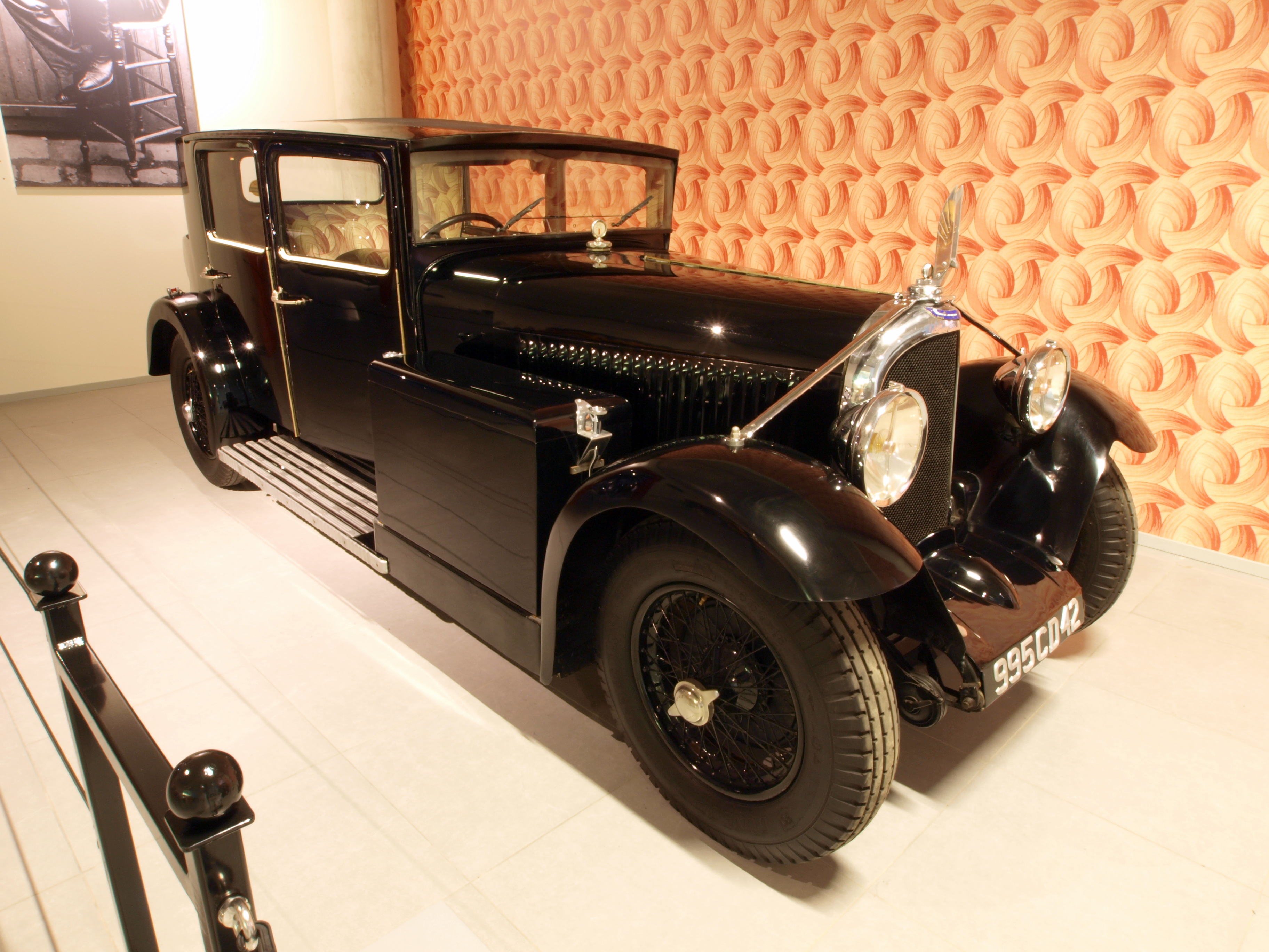 Photographed at the Louwman museum / Louwman Collection, The Netherlands.